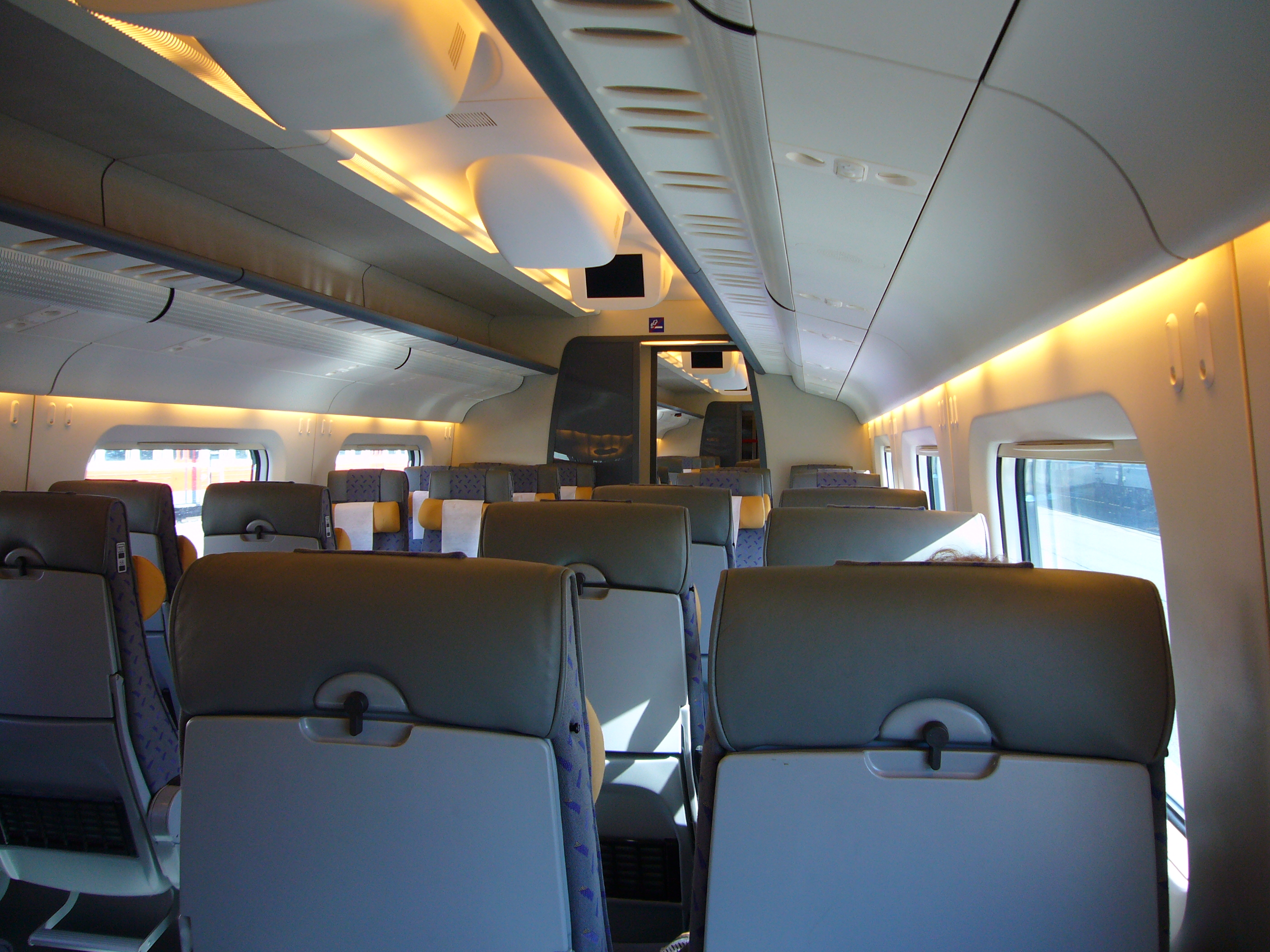 The interior of Finnish Railways (VR) Pendolino (Sm3) electric multiple unit (this is Sm3 number 7510, car 5, about to depart towards Oulu from track 10 of Helsinki central railway station Monday, July 24th, 2006).